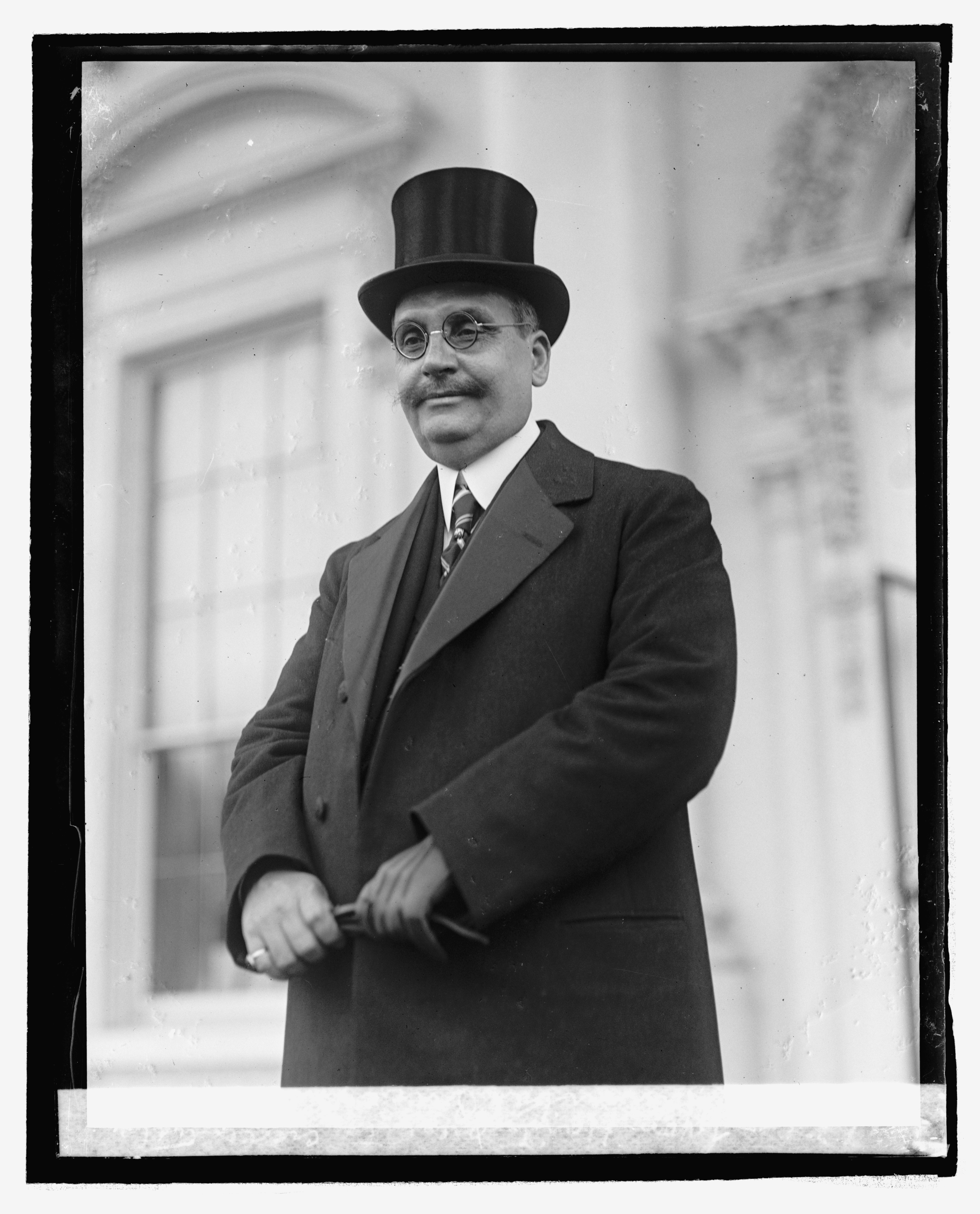 Title: Hannibal Price, Minister from Haiti, presents credentials, 2/10/25 Abstract/medium: 1 negative : glass ; 4 x 5 in. or smaller